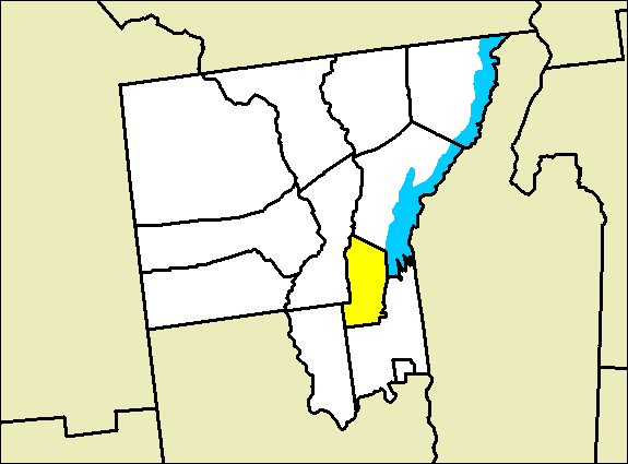 Map of Warren County, New York with town of Lake George highlighted.